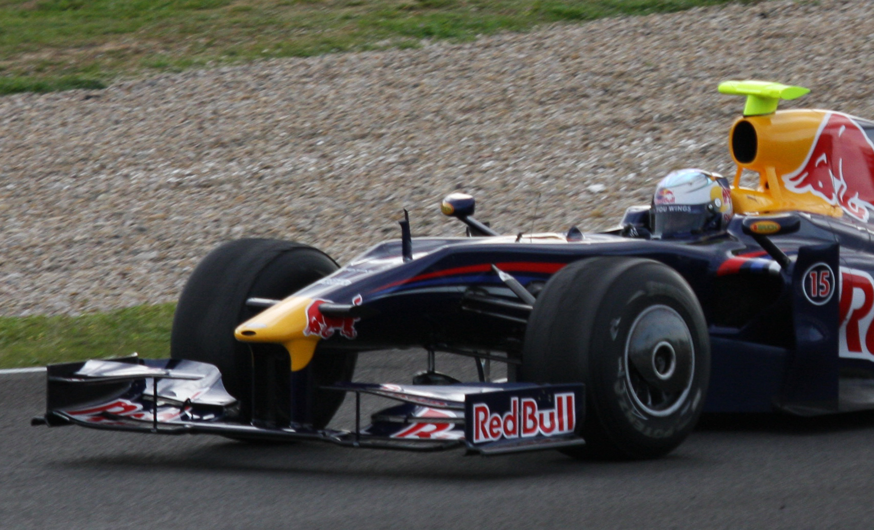 Sebastian Vettel in the Red Bull RB5, F1 testing session, Jerez 10-Feb-2009